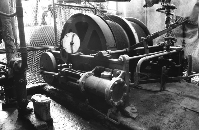 Steam winding engine, Long Rake Spar Mine Duplex geared winding engine by John Wood of Wigan. Originally operated cages in the mine's shaft. Now removed and last seen in the open at the back of the site. There is a Weir boiler feed pump on the left and the vertical boiler was behind me. This was in the best traditions of urban exploration and involved hiding behind said boiler while somebody loaded a lorry.